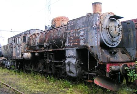 Swedish steam engine E10 1744 2004 in Grängesberg